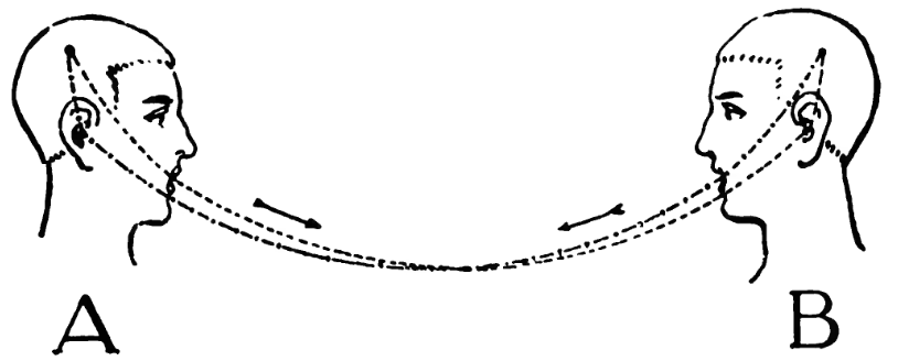 diagram used on page 27 of Ferdinand de Saussure's Cours de linguistique générale (1916)